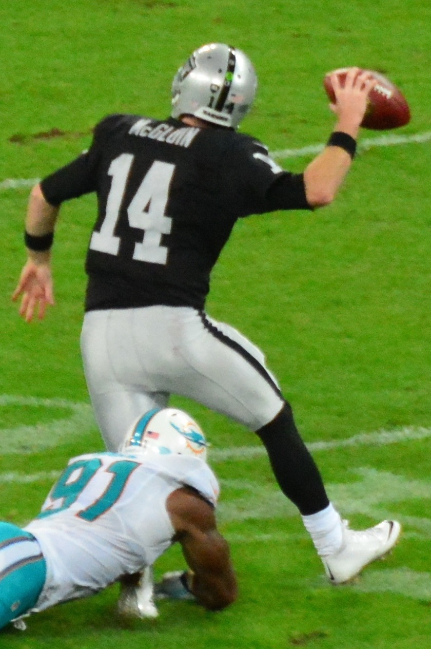 Raiders vs Dolphins - Wembley Sep 2014